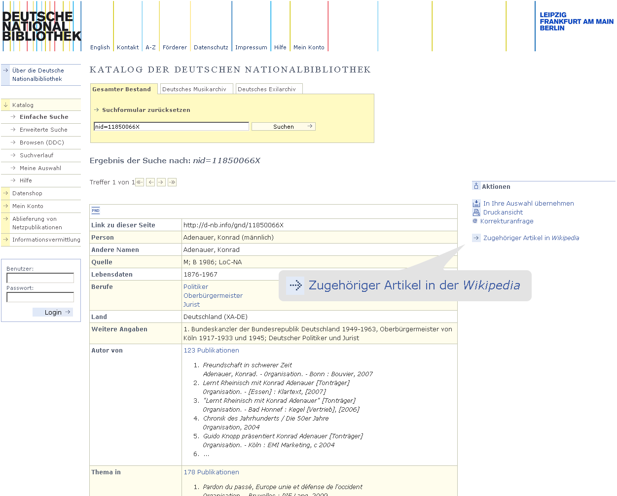 Screenshot of the website of the German National Library. Search result for "Konrad Adenauer" with a link to his Wikipedia article.